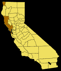 Map of the States who paid for the Golden Gate Bridge